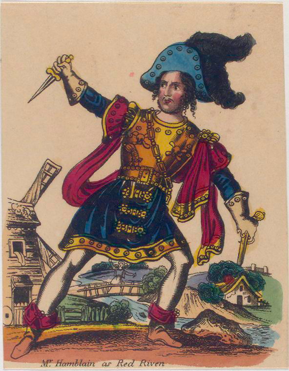 Mr. Hamblain [Hamblin] as Red Riven. Hand-colored etching. 12.5 x 9.5 cm. The actor pictured is Thomas Sowerby Hamblin (1800–1853).